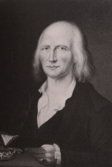 Gen Maj Friherre Carl Gustaf Armfelt (1724-1792). One of the top conspirators in the Anjala conspiracy. Uncle of Gustaf Mauritz Armfelt. In picture Carl Gustaf Armfelt is being held as a prisoner in Malmöhus fort.